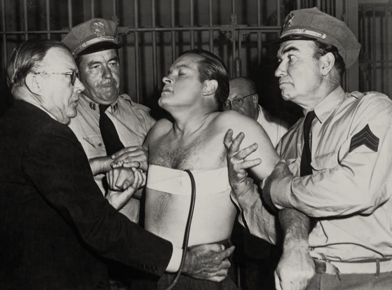 Willard Robertson (left) & Bob Hope (center) in My Favorite Brunette - cropped screenshot